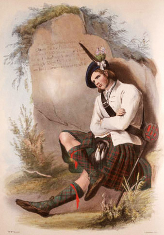 "Macdonald of Glenco". A plate illustrated by R. R. McIan, from James Logan's The Clans of the Scottish Highlands, published in 1845.